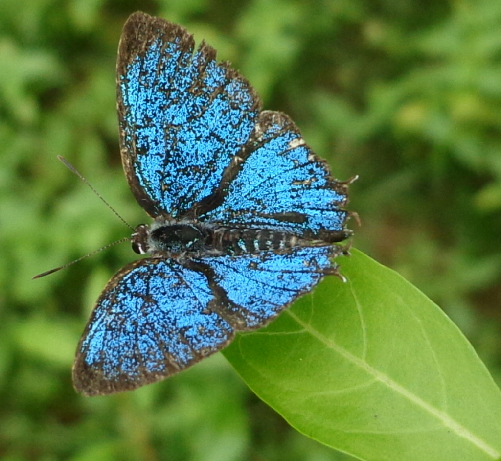 Paradeudorix eleala, with exposed wings.